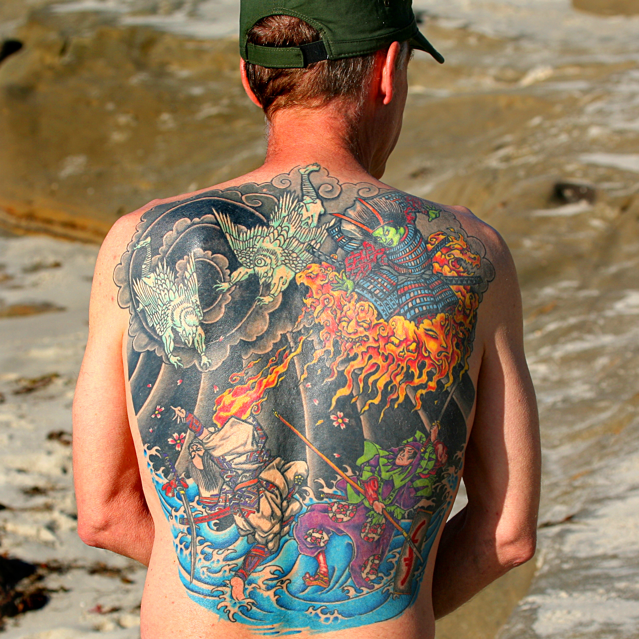 Back tattoo